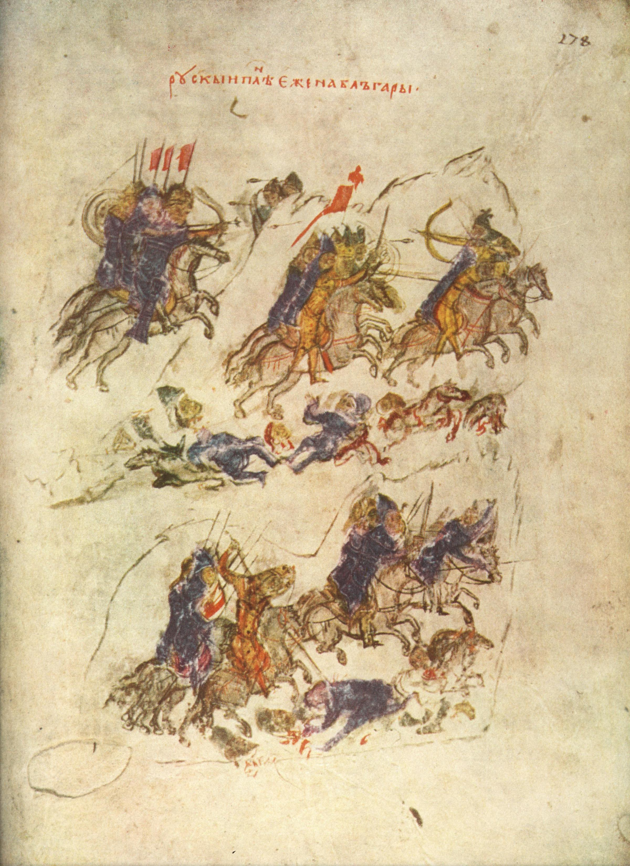 Miniature 63 from the Constantine Manasses Chronicle, 14 century: Invasion of King Sviatoslav I of Kiev into Bulgaria.